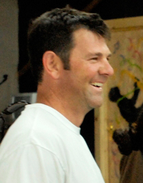 Former major league player Sterling Hitchcock poses for a photo with three Iron Brigade Soldiers during a morale-boosting visit to Forward Operating Base Hammer, Sept. 23, 2008.